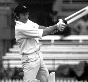 Image of Australian cricketer Ian Chappell. Courtesy of the National Archive of Australia. The NAA has given permission for the image to be used under the GDFL license. Confirmation of this permission has been sent to the OTRS system.